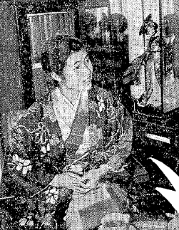 A Japanese hurdler, Miyoko Mitsui. She is in her drawing room.